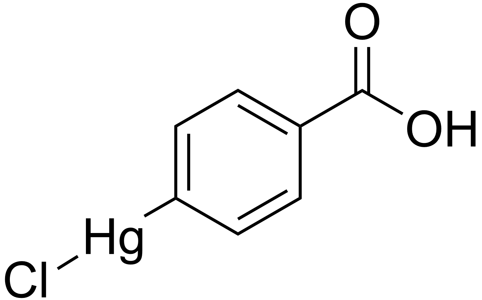 Chemical structure of 4-chloromercuribenzoic acid (p-chloromercuribenzoate, PCMB)